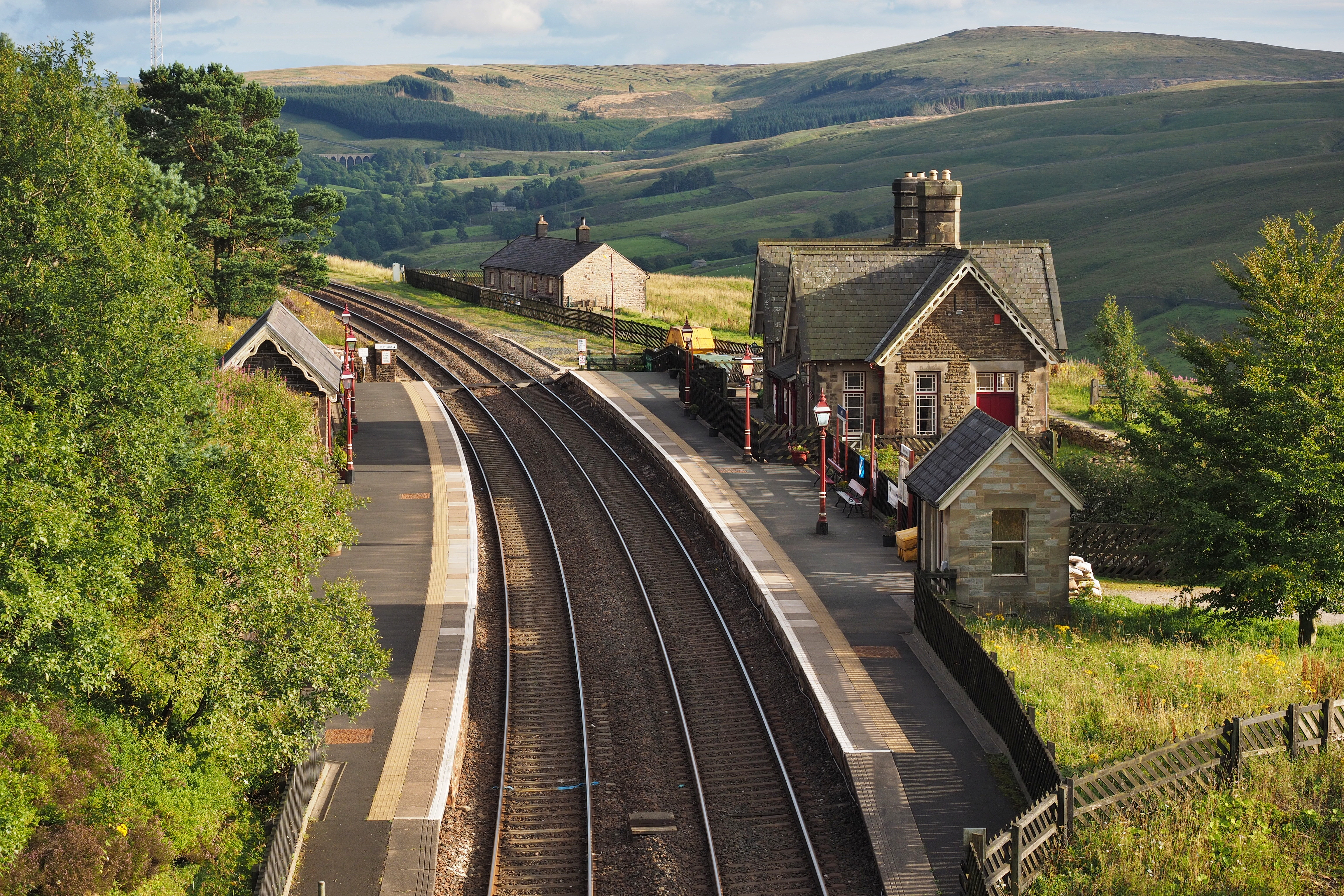 Dent railway station, Settle–Carlisle line